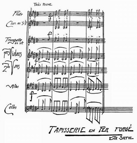 Erik Satie: "Tapisserie en Fer forge" Partiture (Musique d'ameublement) 1924 - pour graph de Bomond